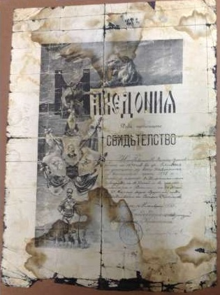 document